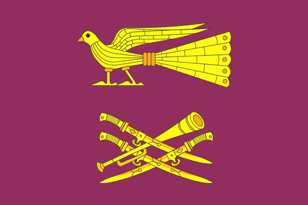 Flag of Korenovsky rayon, Krasnodar Territory, Russia